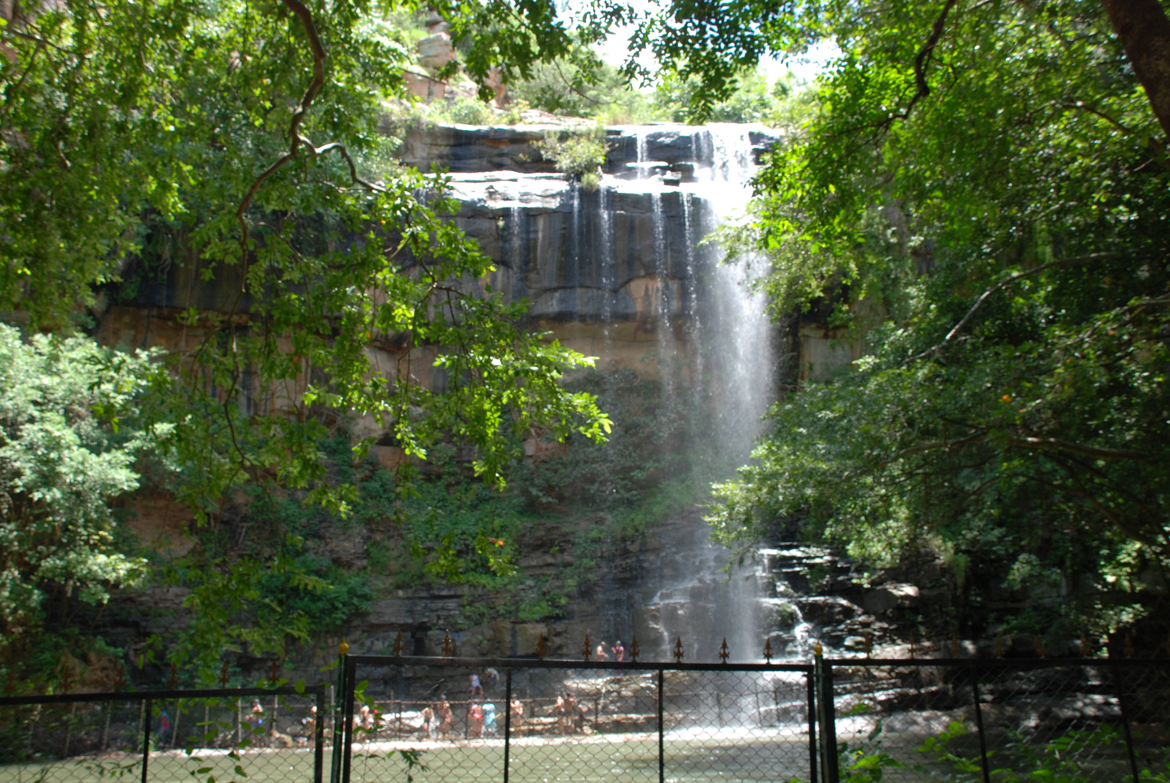 Mallelatheertham falls, Srisailam